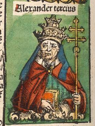 15th-century illustatrions of Pope Alexander III from the Nuremberg Chronicle, printed c.1493.